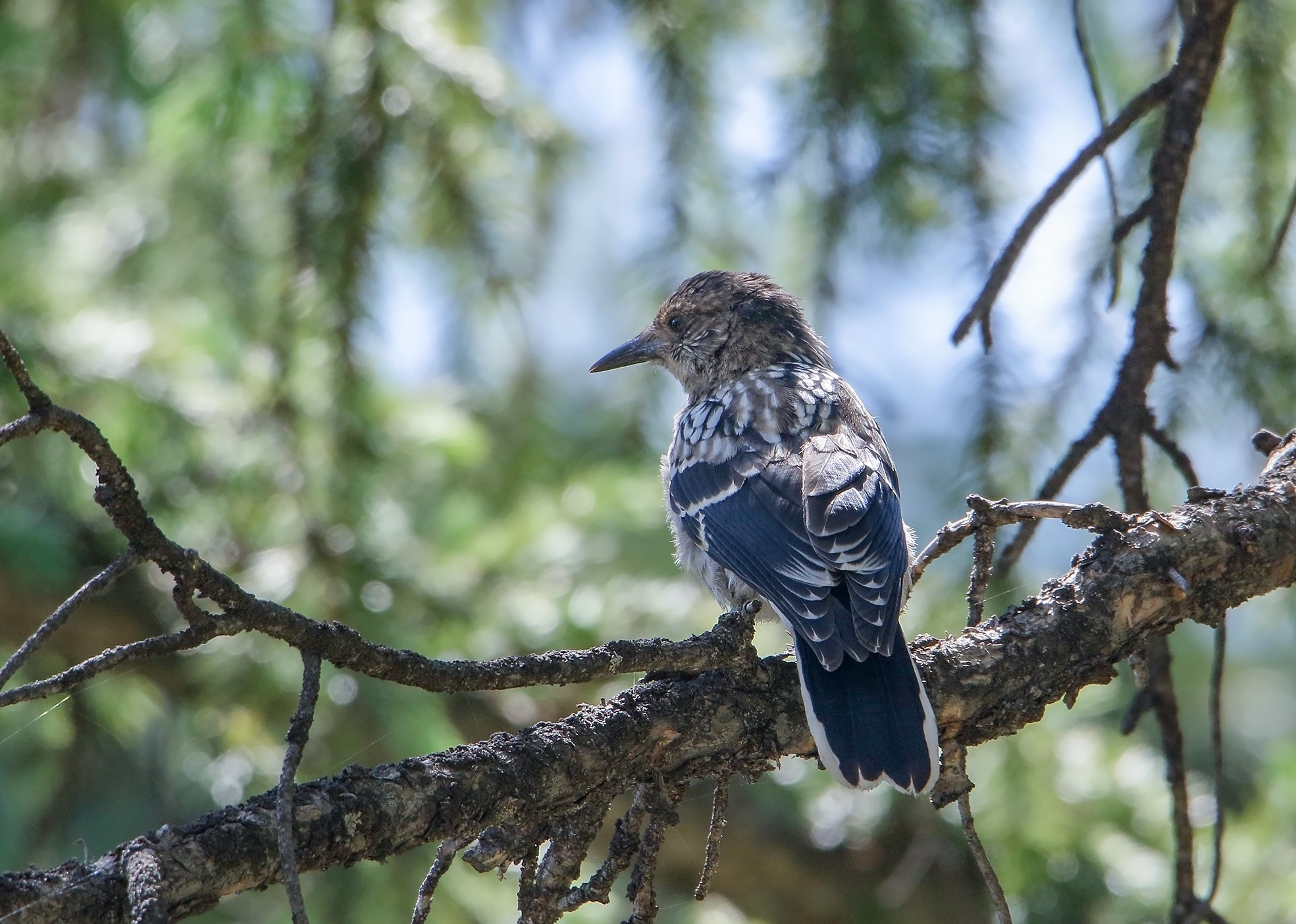 Large-spotted Nutcracker (Nucifraga multipunctata) captured at Rama, Astore, Gilgit-Baltistan, Pakistan with Canon EOS 7D Mark II